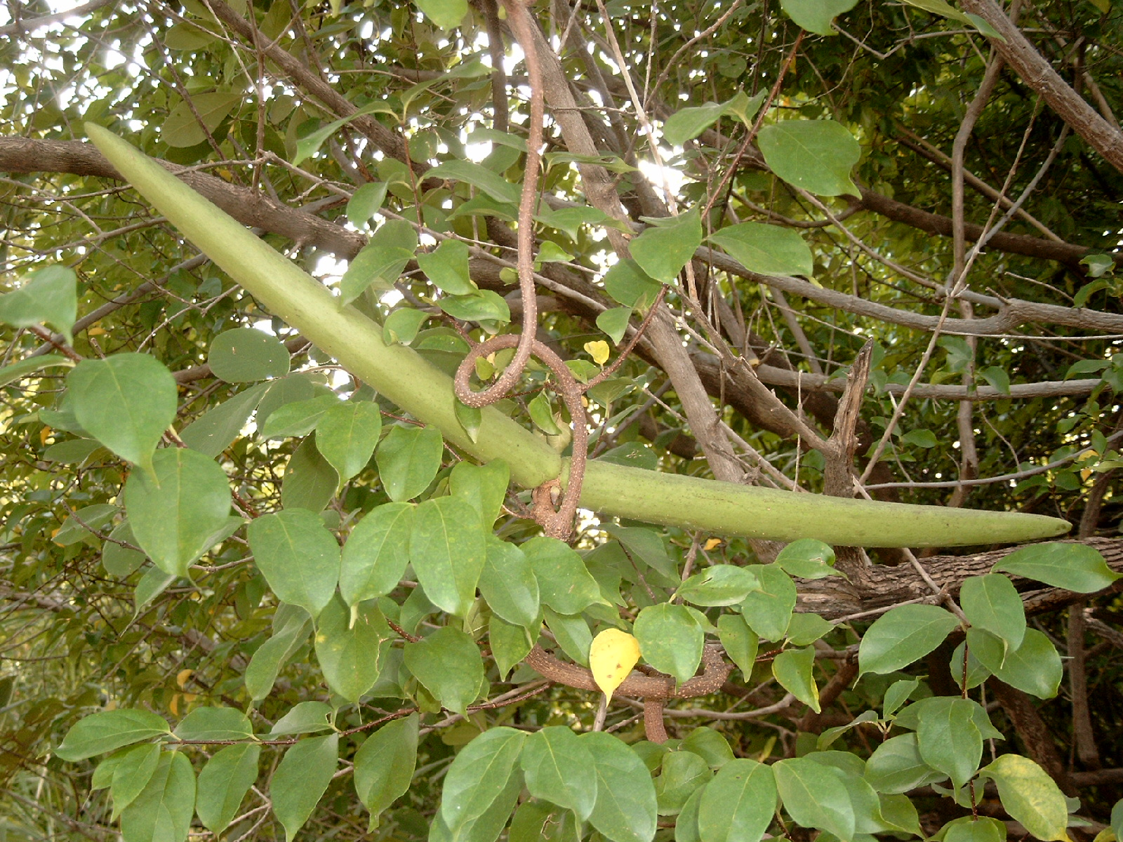 Strophanthus sarmentosus, fruit, traditionally used as arrow poison. Arli NP, Burkina Faso.